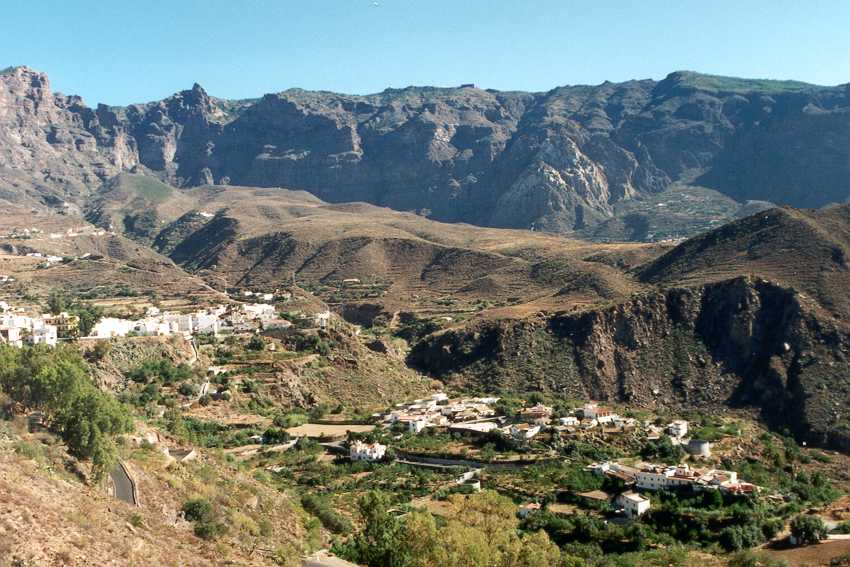 Mountain landscape, Gran Canaria